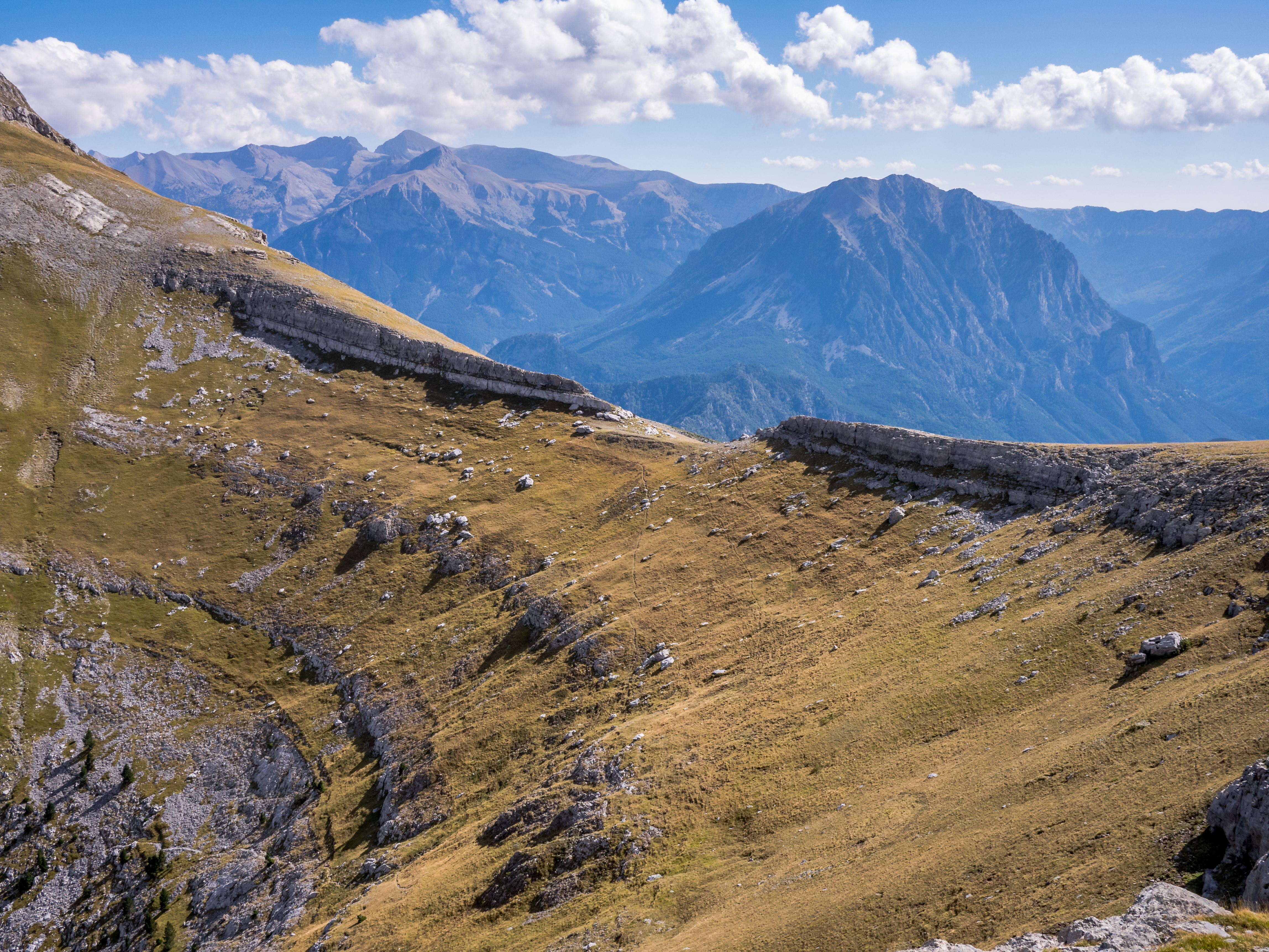 Portillo de Tella mountain pass (2089 m). Sobrarbe, Huesca, Aragon, Spain